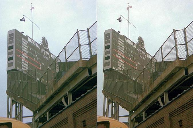 Cubs Win Flag old scheme (white on blue) after a victory in a 1977 game.